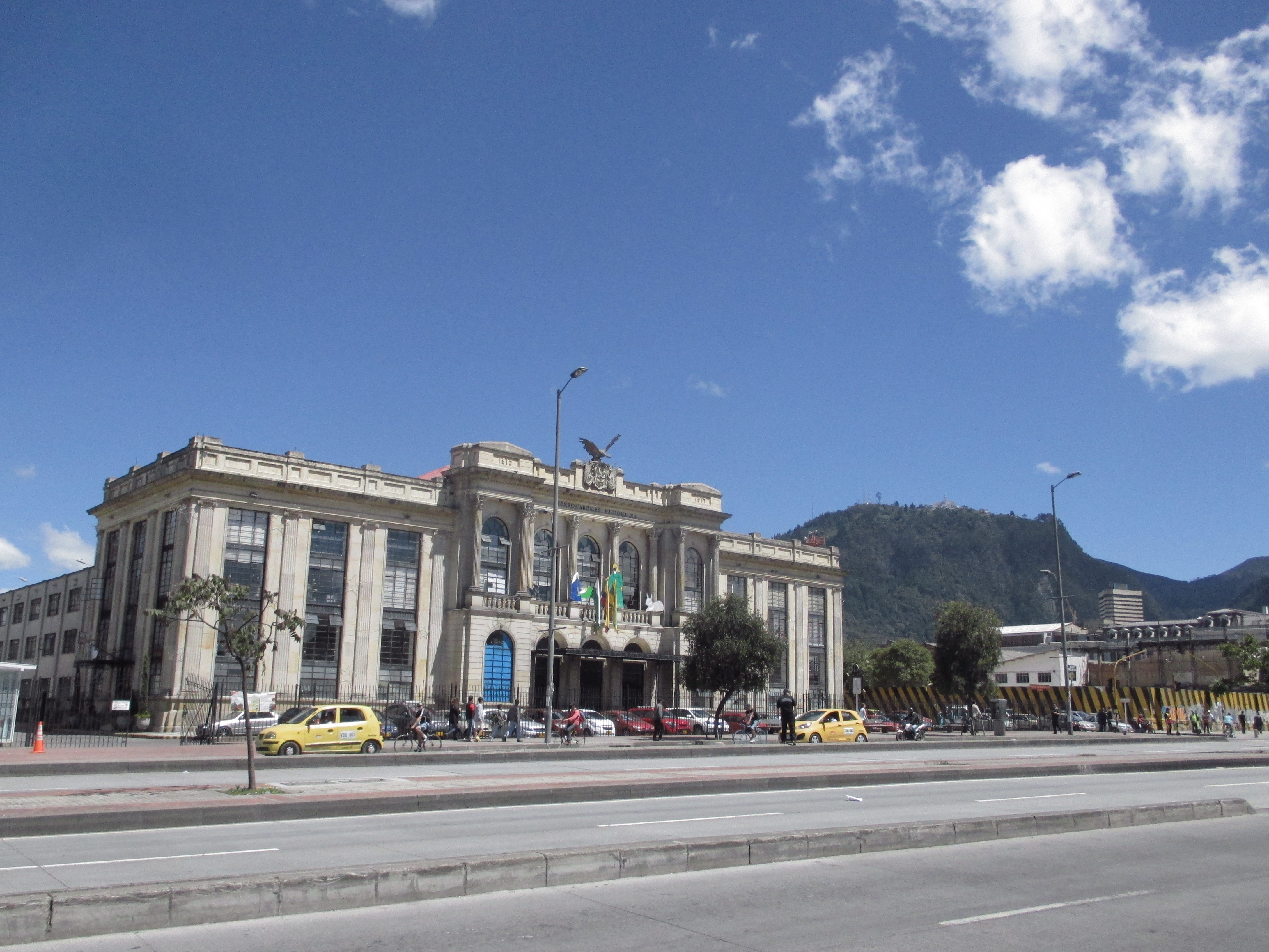 Bogotá